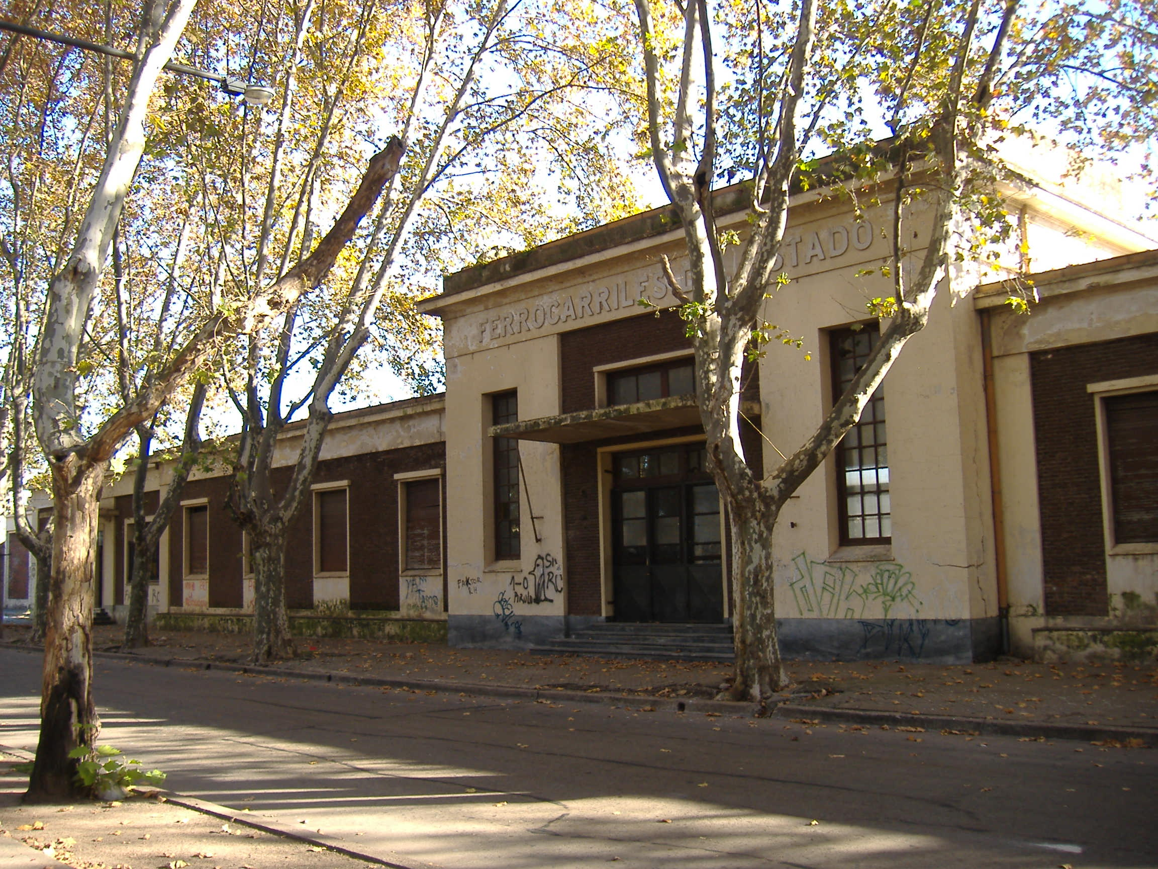 Rosario Oeste railway station, in Rosario, province of Santa Fe, Argentina. The original station was a wooden structure built in 1917 as a stop for the line leading west, to Córdoba, handled by the Ferrocarril Central Córdoba company. It was demolished in the mid-1940s and rebuilt. It is now practically abandoned.